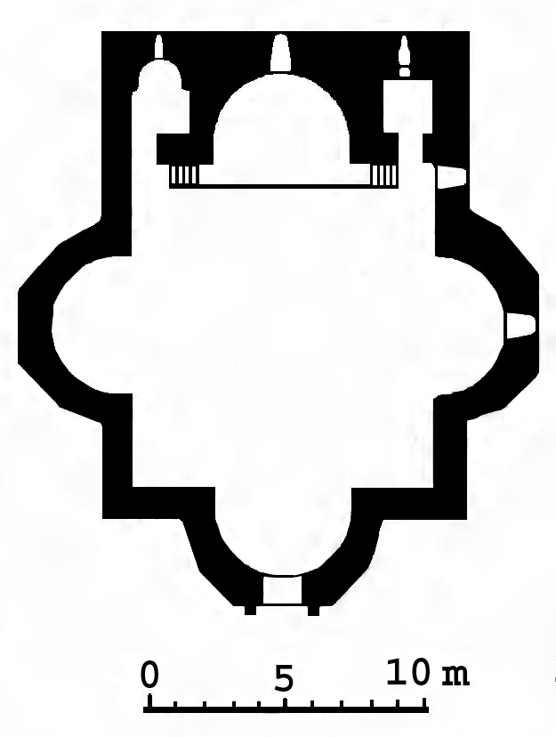 Plan of S. Hovhannes church in Mastara